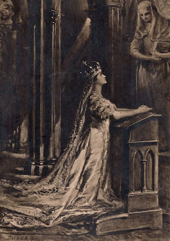 Zita of Bourbon-Parma, the last Empress of Austria and Queen of Hungary